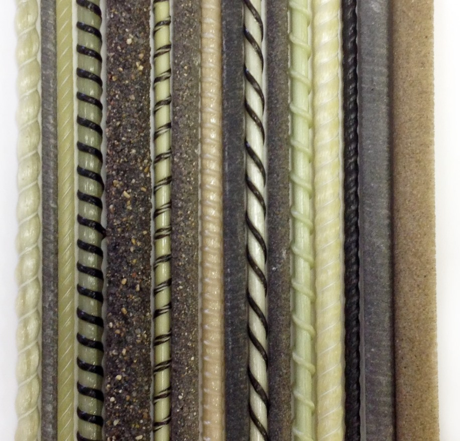 Composite rebar